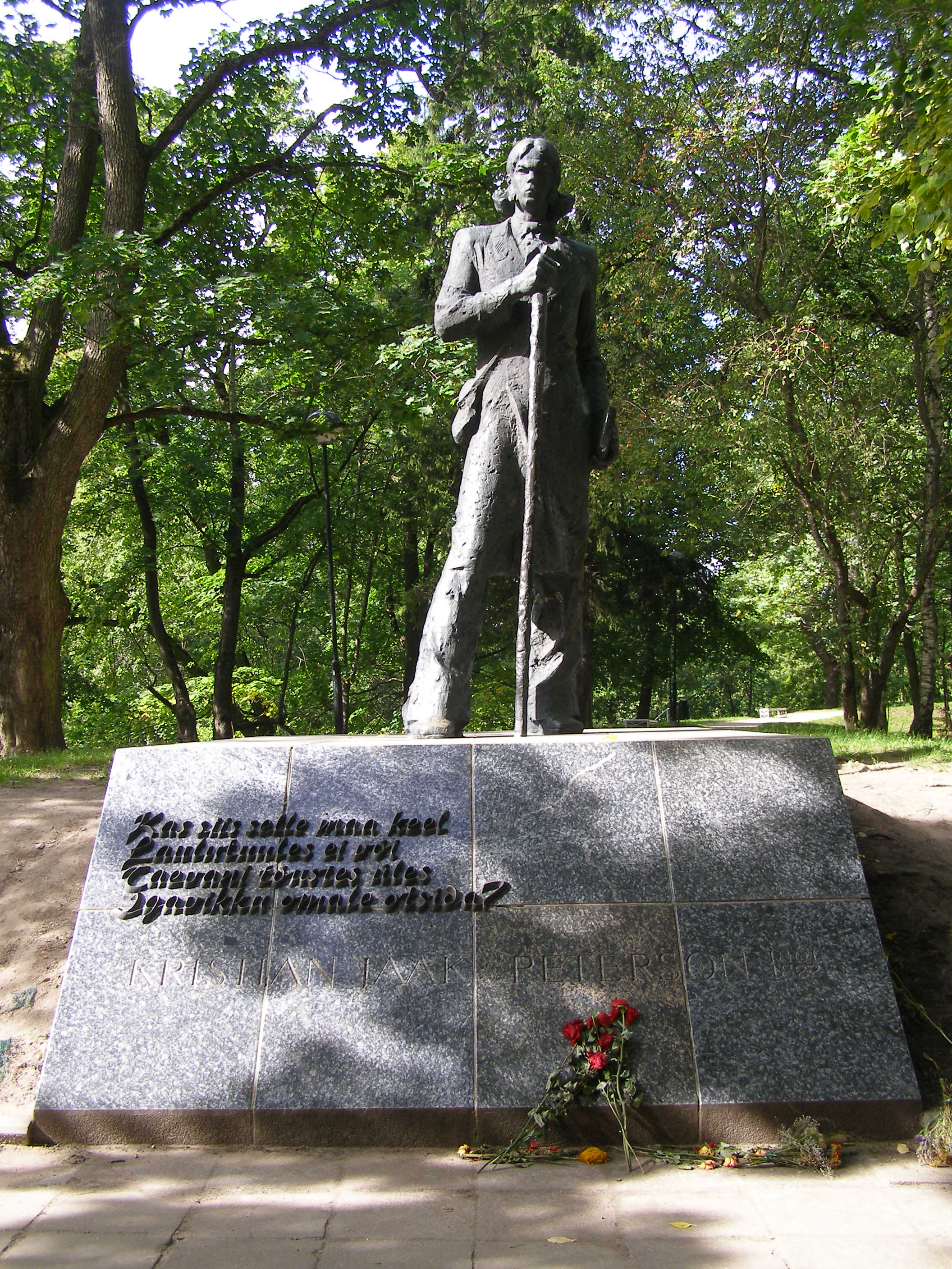 Statue of Kristjan Jaak Peterson in Toomemägi, Tartu, Estonia. My own photo, September 2007.